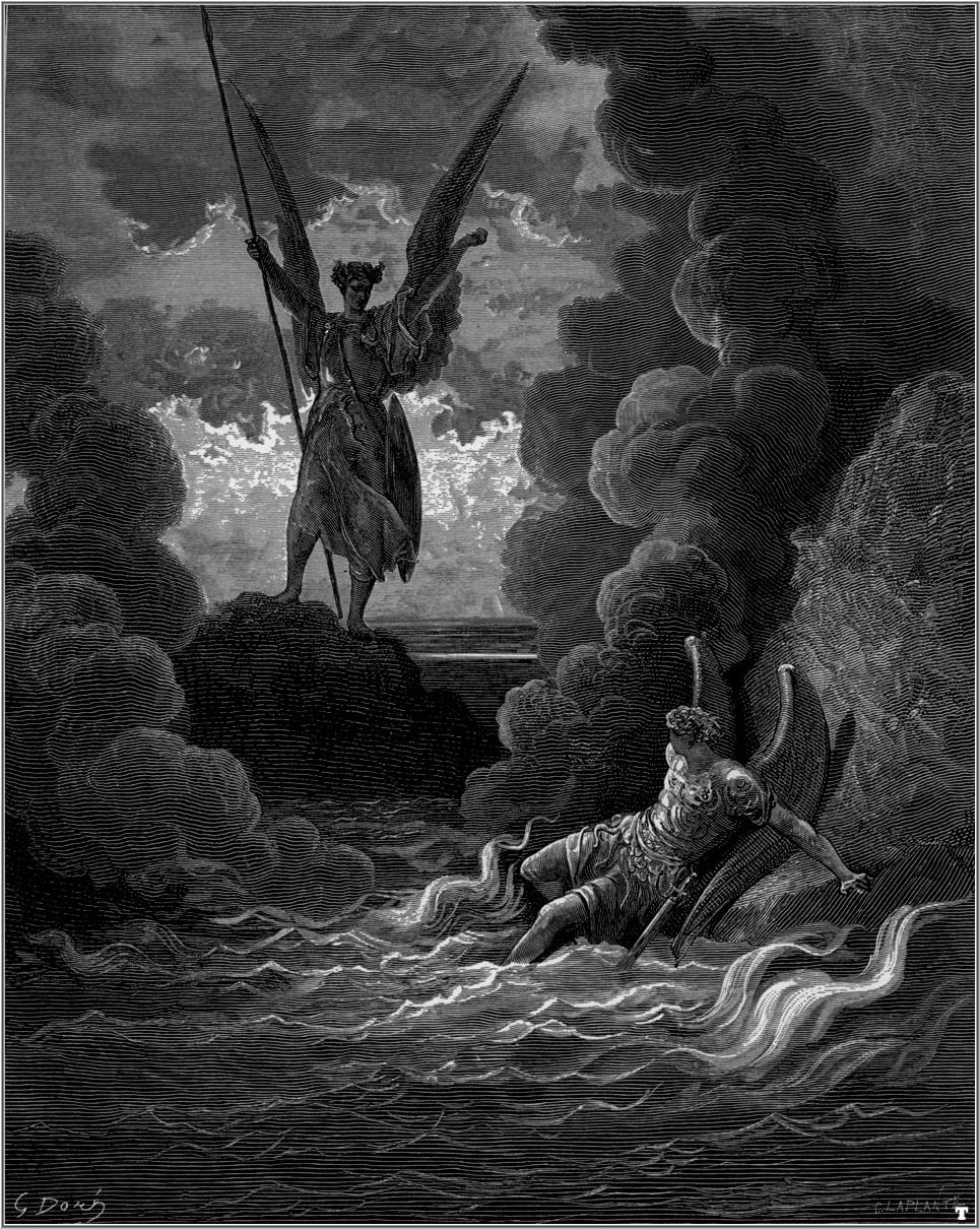 Illustration for John Milton’s “Paradise Lost“